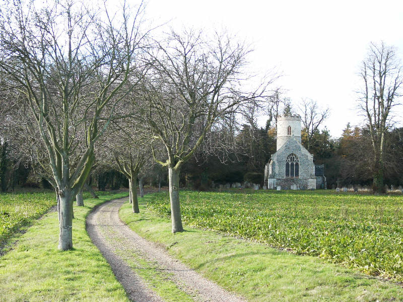 Eccles St Mary